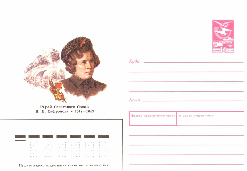 Illustrated stamped envelope with definitive stamp of the Soviet Union of 1989 featuring Hero of the Soviet Union Valentina Safronova.